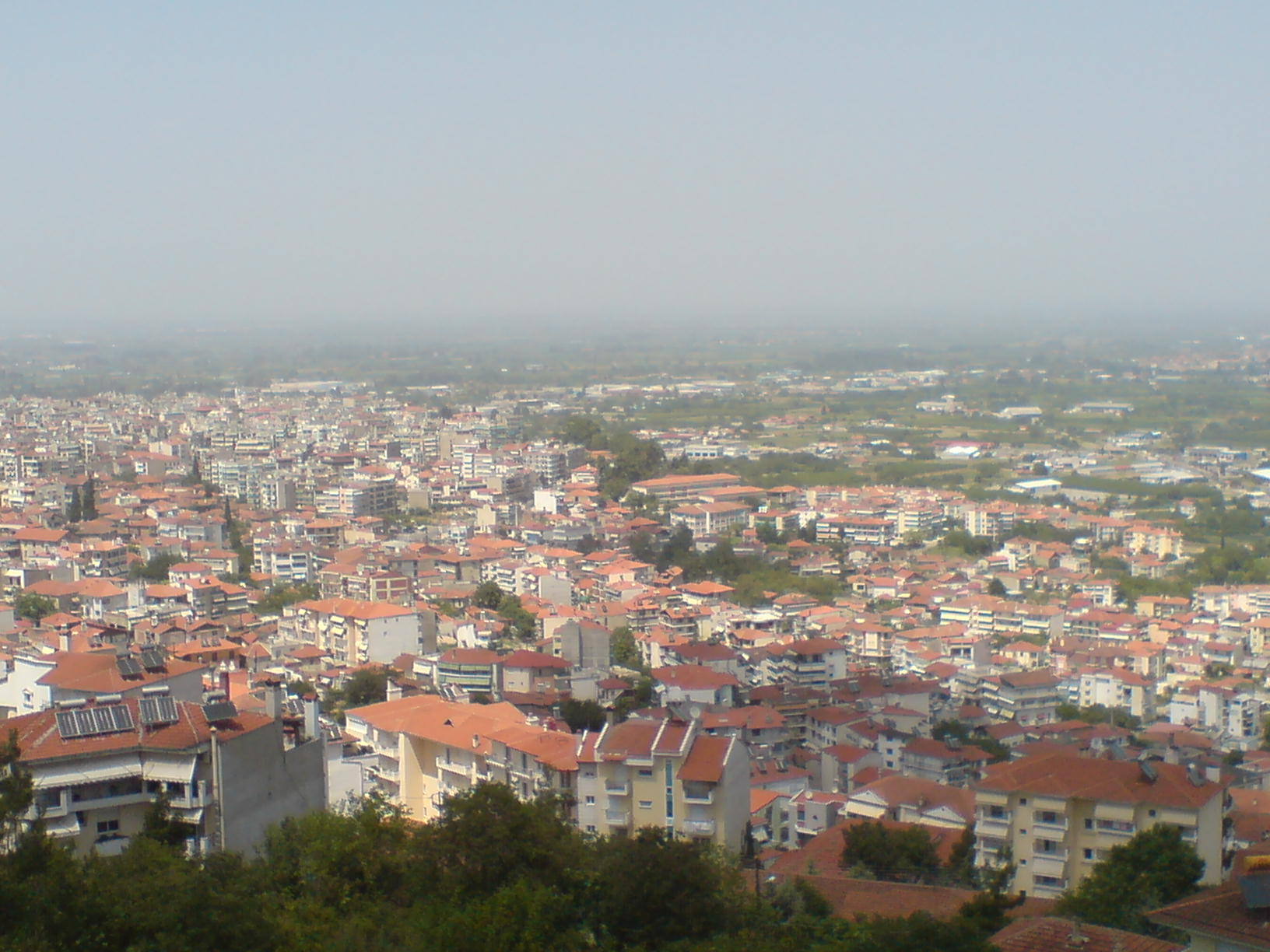 Panoramic view of Veria. Photo was taken on June 26th 2007.